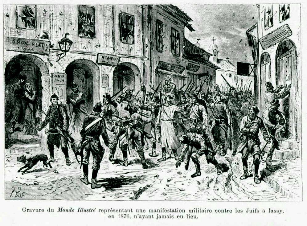 Photographic reproduction of an engraving in Monde Illustré, by the Romanian historian and polemicist Radu Rosetti. Image shows alleged violence against the Jewish community of Iași, with the participation of Romanian Army personnel; according to Rosetti's comment at the bottom, this incident "never happened".